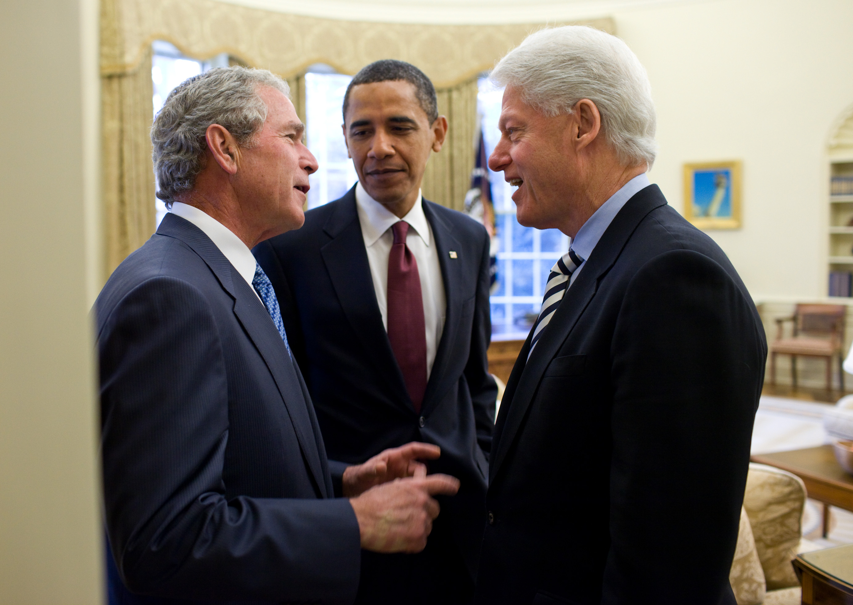 President Obama had called on the two former Presidents to help. During their public remarks in the Rose Garden, President Clinton had said about President Bush, ‘I’ve already figured out how I can get him to do some things that he didn’t sign on for.’ Later, back in the Oval, President Bush is jokingly asking President Clinton what were those things he had in mind.